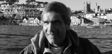 Oliver Foot, Cornwall 2007